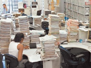 pilha